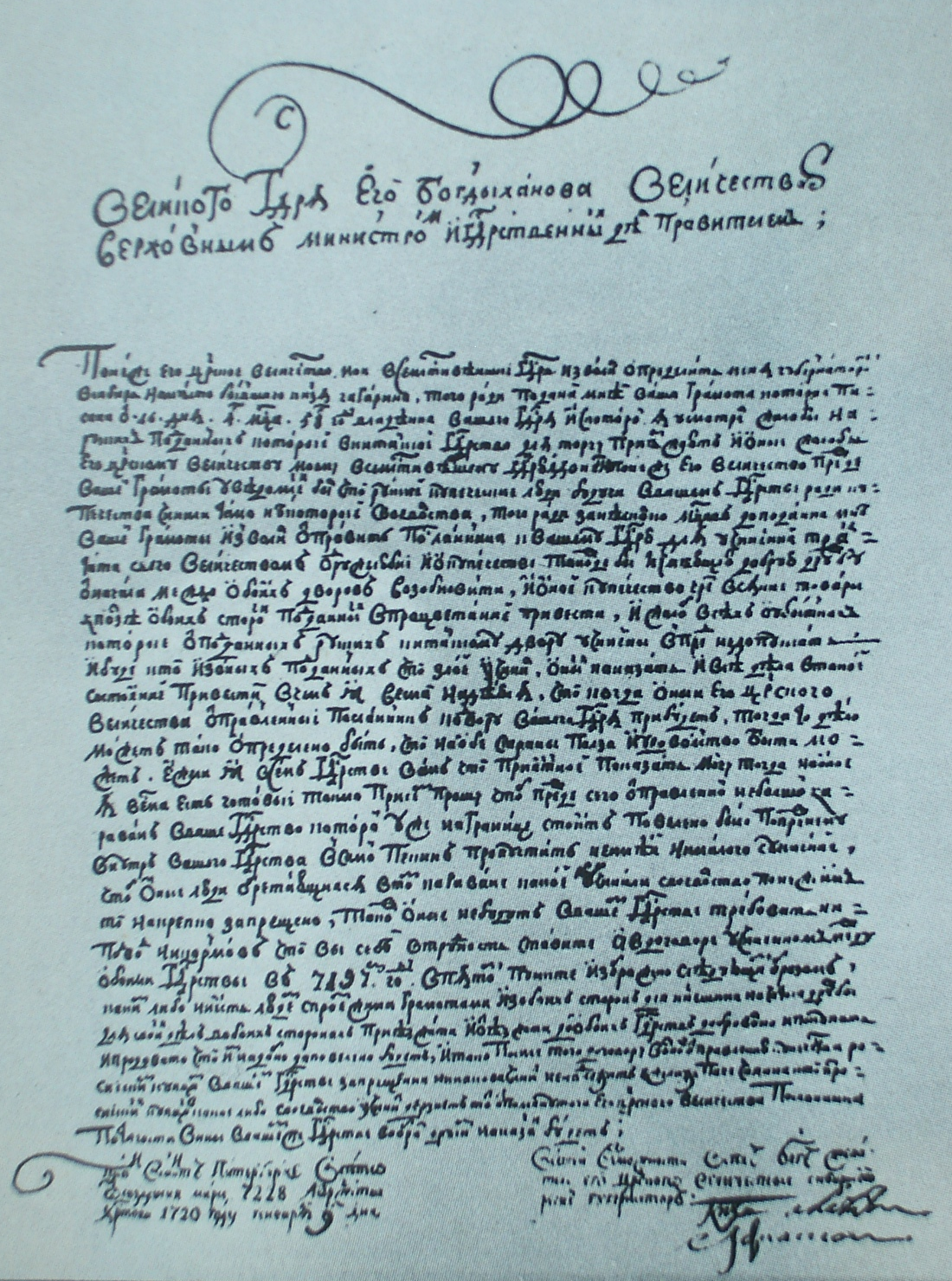 Letter from the Peter I era government of Russia to the chief minister of the Kangxi Emperor of China, written in Saint Petersburg in early 1720 (January 9, 1720, if I read the date right)